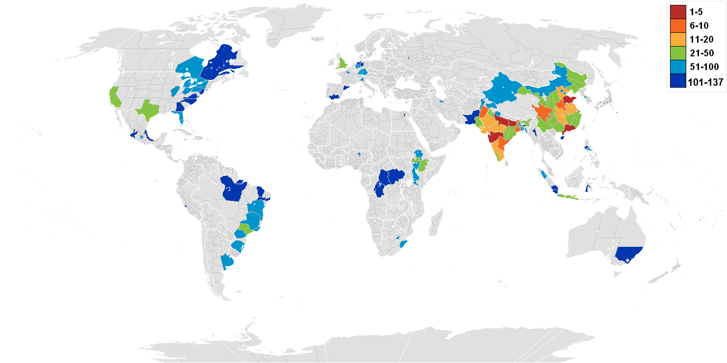 Based on Image:BlankMap-World-Subdivisions.PNG, using information from List of the most populous country subdivisions See also: largest subdivisions by area map